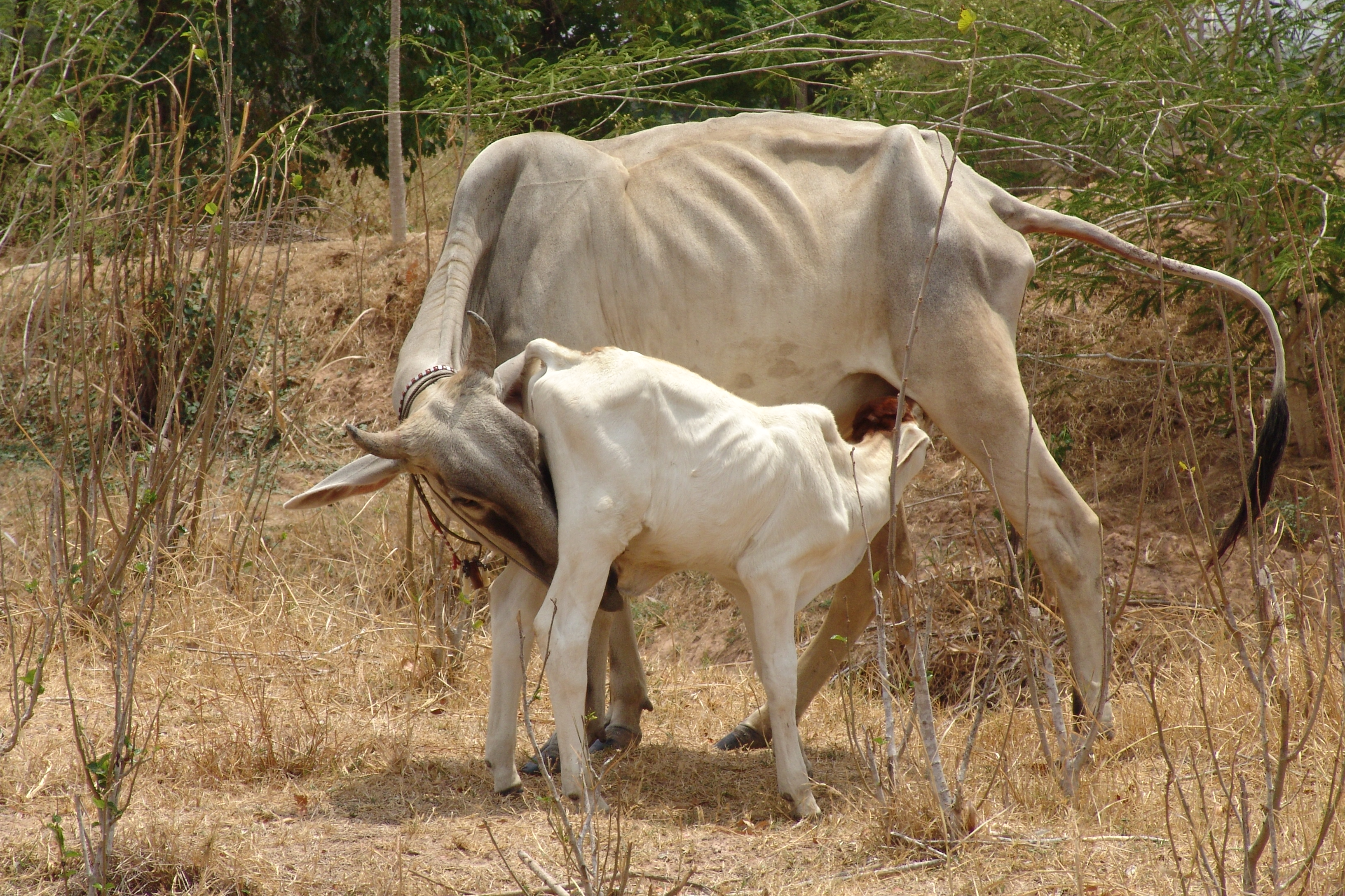 My Cattle, Thailand, Isaan, 2005, Own work